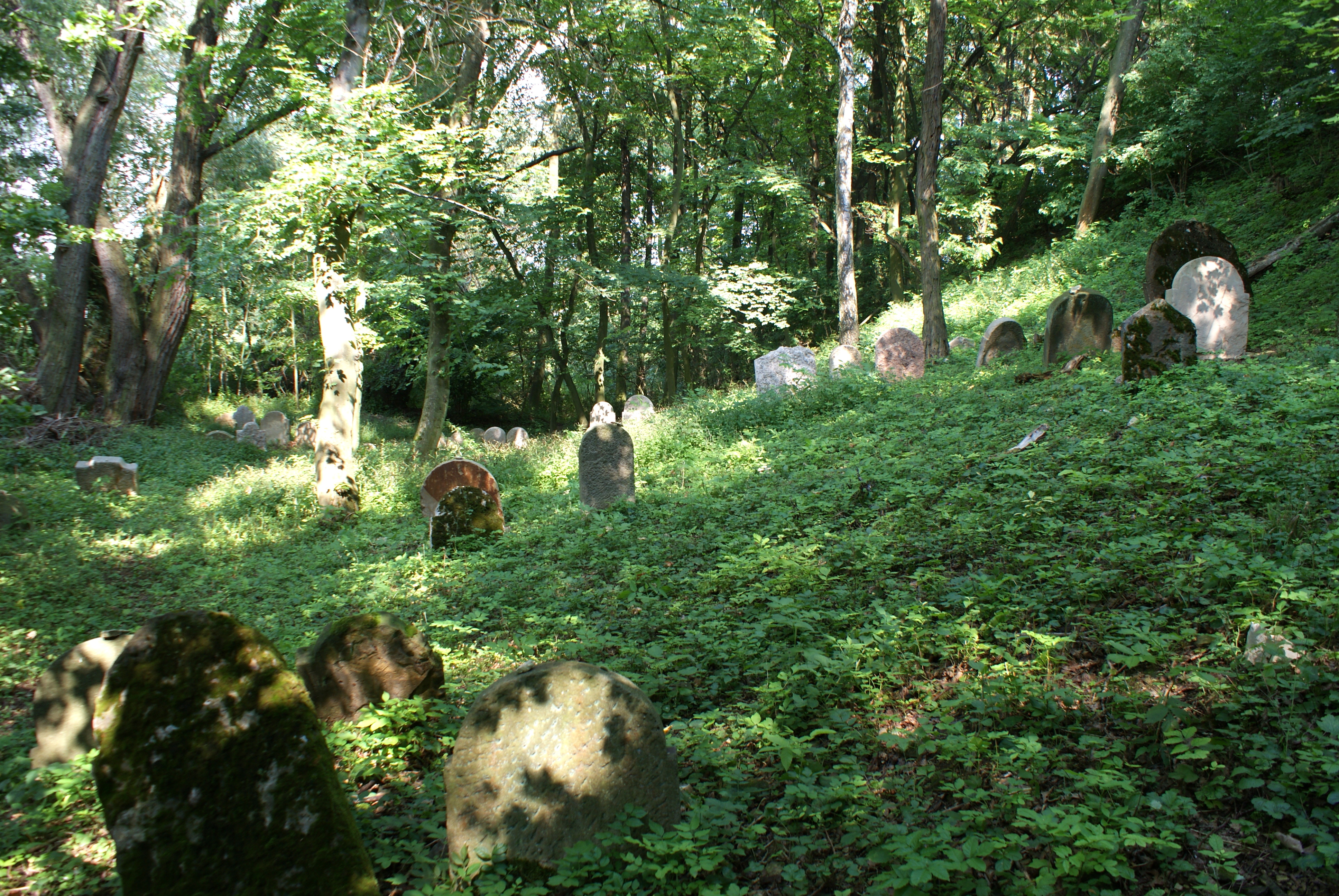 Old Jewish cemetery near village of Hostouň, Kladno District, Czech Republic.